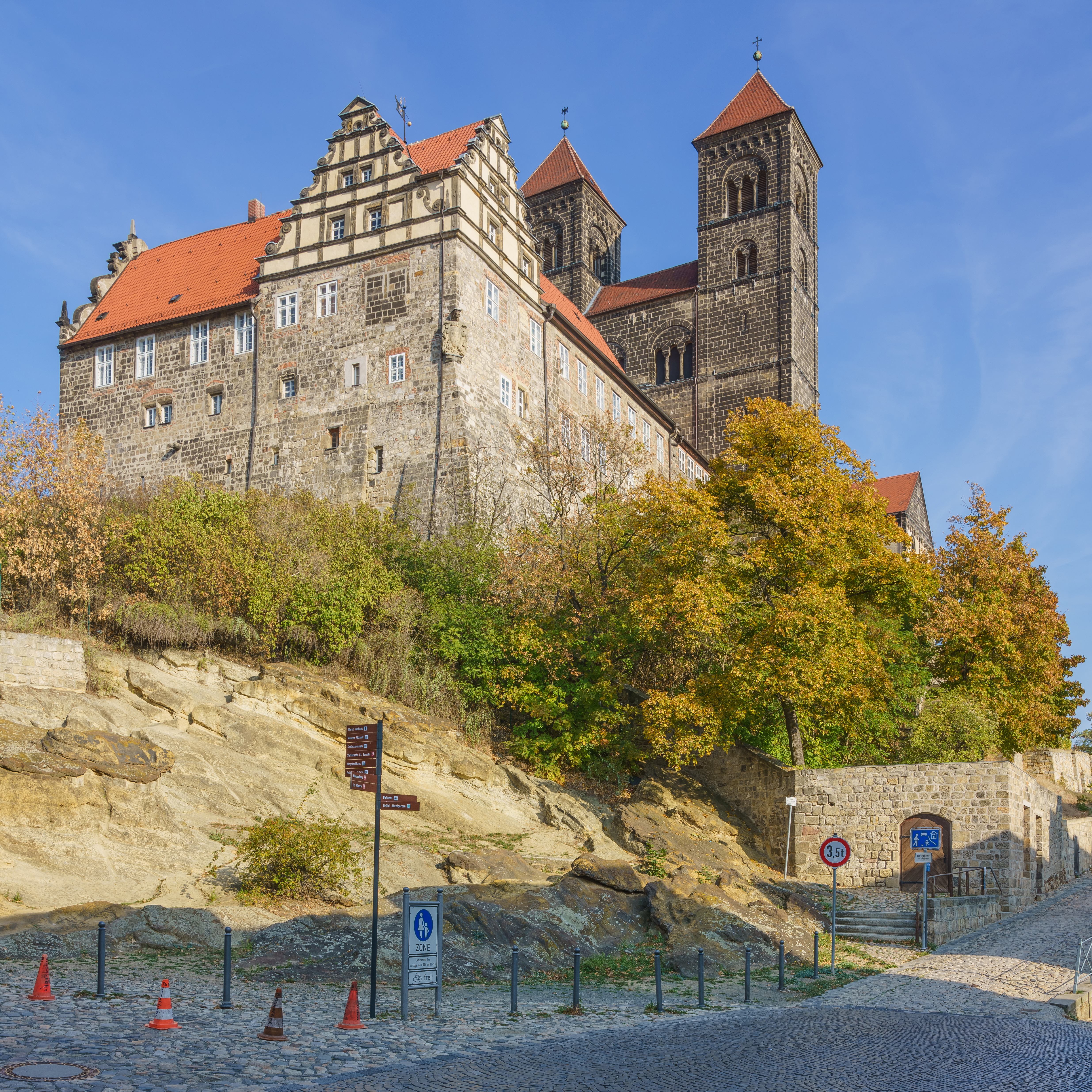 Castle and Collegiate Church in Quedlinburg, Germany